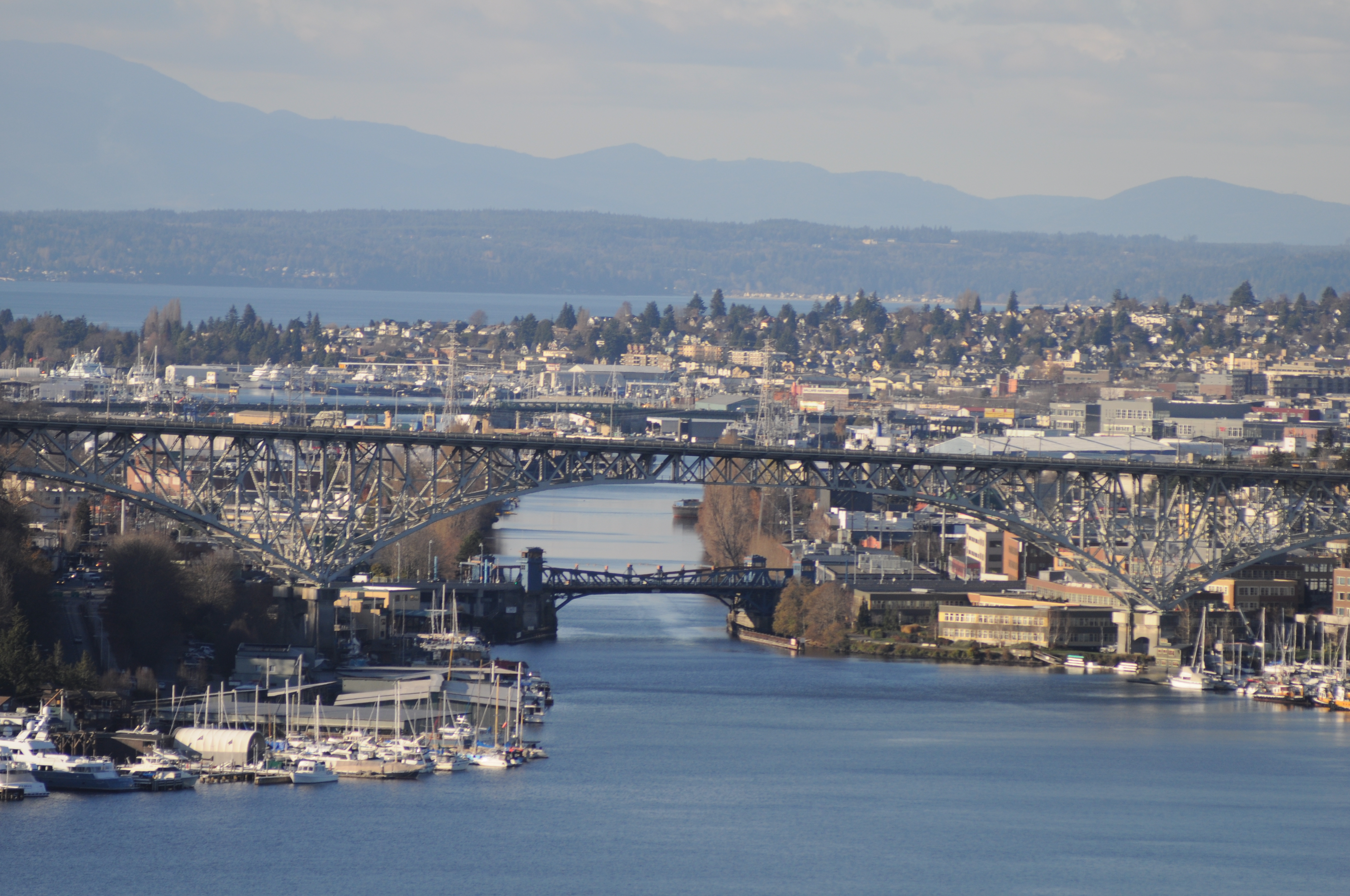 The Fremont Cut of the Lake Washington Ship Canal, Seattle, Washington, seen from the grounds of the Eliza Ferry Leary House (a.k.a. Diocesan House) in the same complex of buildings as St. Mark's Episcopal Cathedral, across Lake Union.